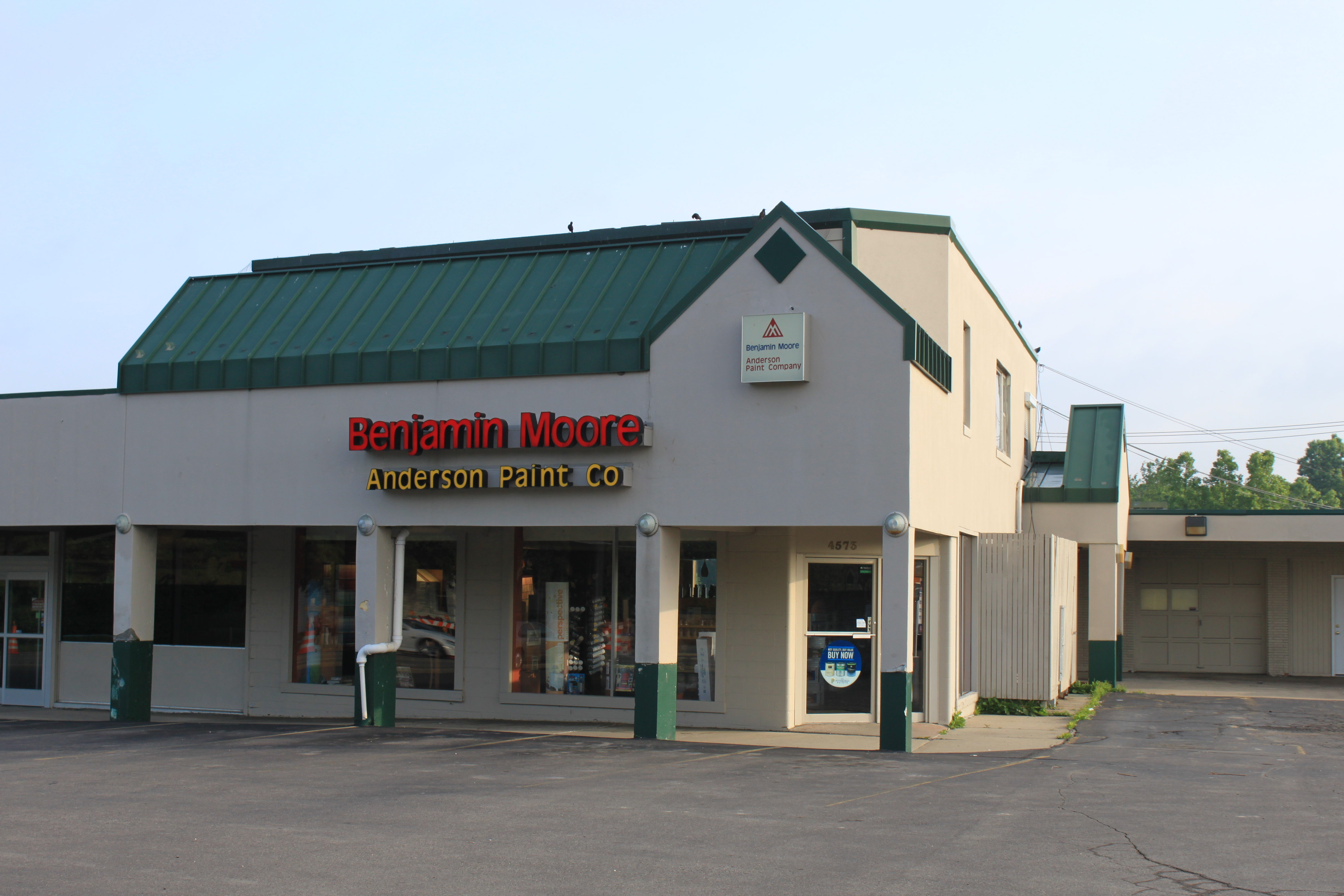 Benjamin Moore retailer, 4573 Washtenaw Ave., Ann Arbor Michigan